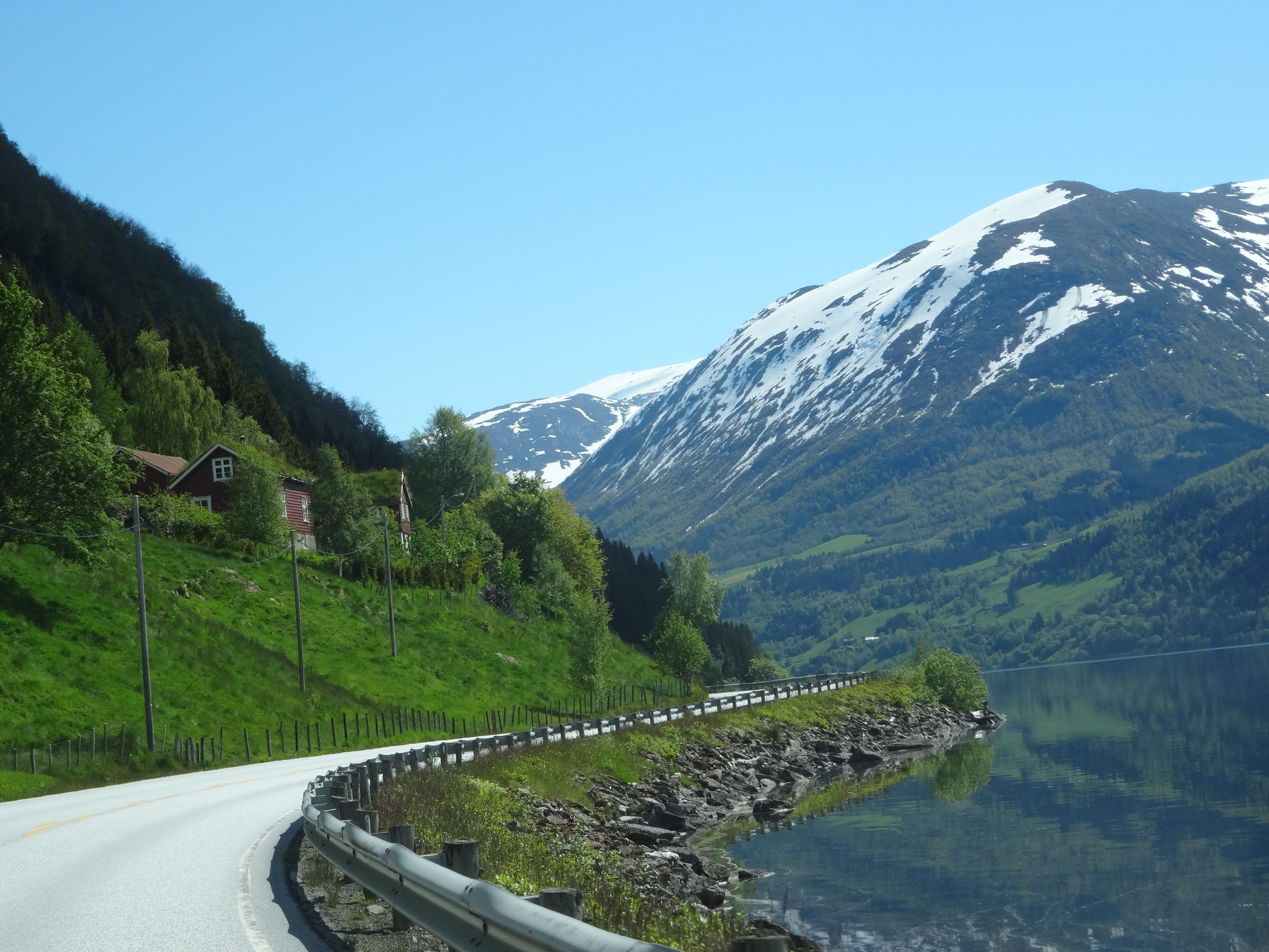 The E39 at the Jølstravatnet